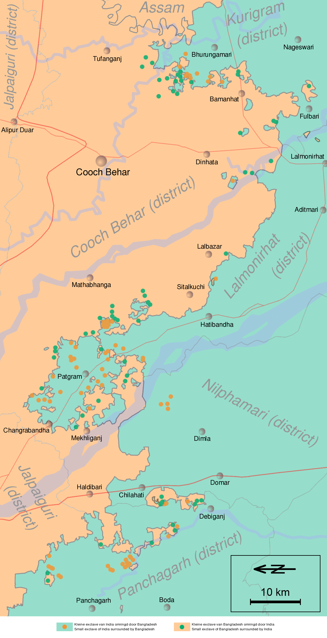 Schematic map of the Cooch Behar enclaves on the border of India and Bangladesh. The top of the map points to the east.